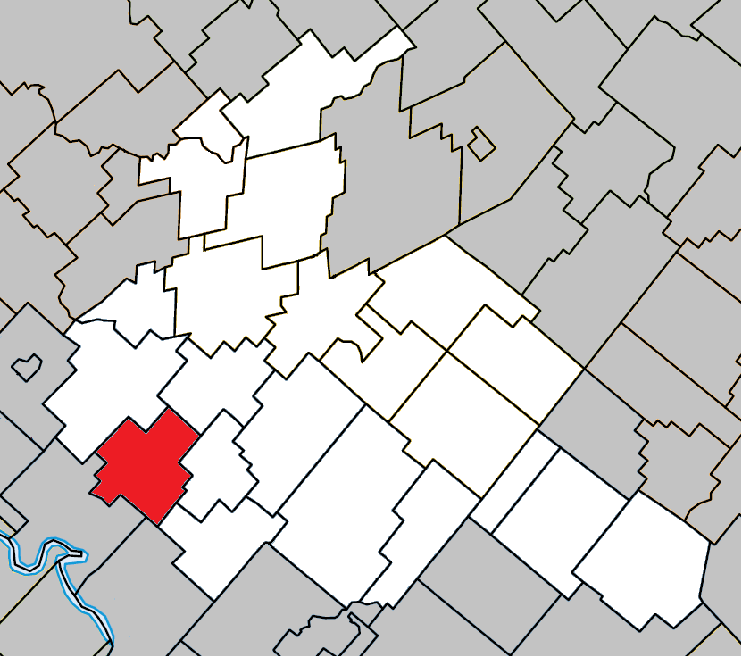 Location of Sainte-Séraphine, Quebec within Arthabaska Regional County Municipality.